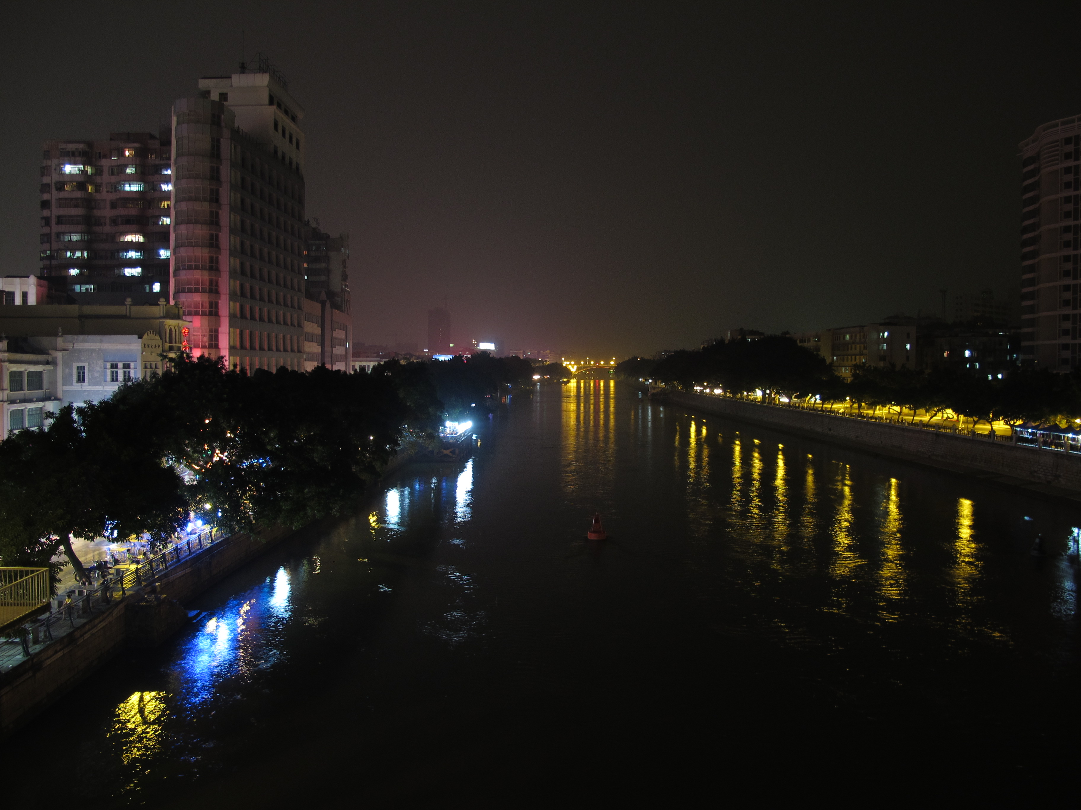 View of the [...] Bridge in the district of Pengjiang in Jiangmen, China.